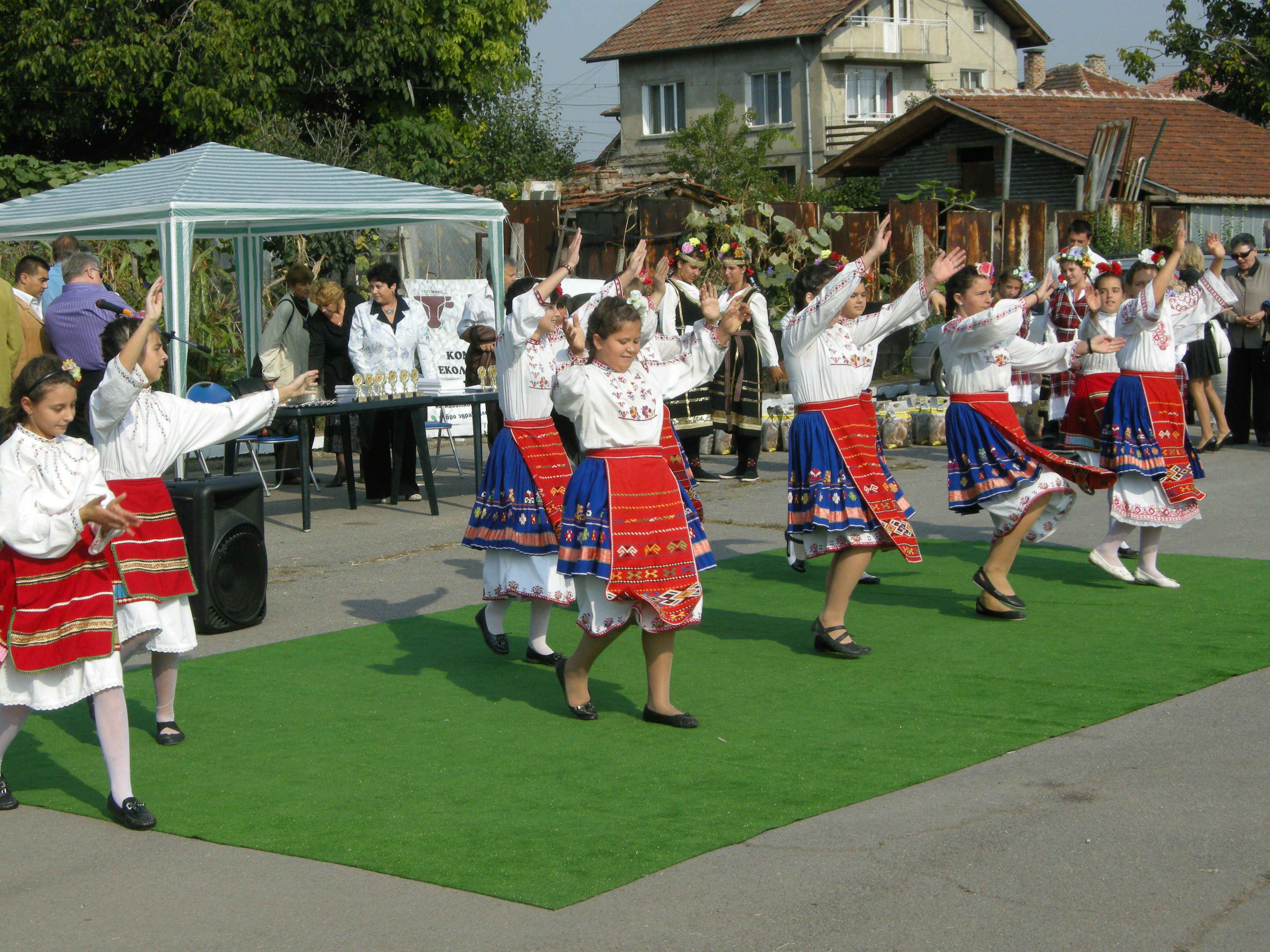 Bulgarian girls in traditional national costums, performing Bulgarian folklore dance in Kostinbrod, Bulgaria.